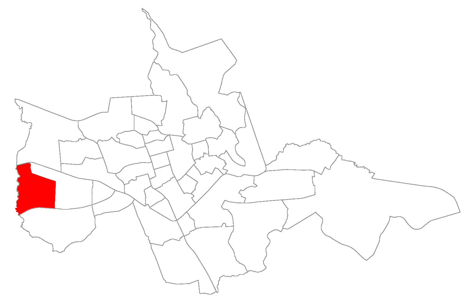 neighborhood/district of Santa Maria, Rio Grande do Sul